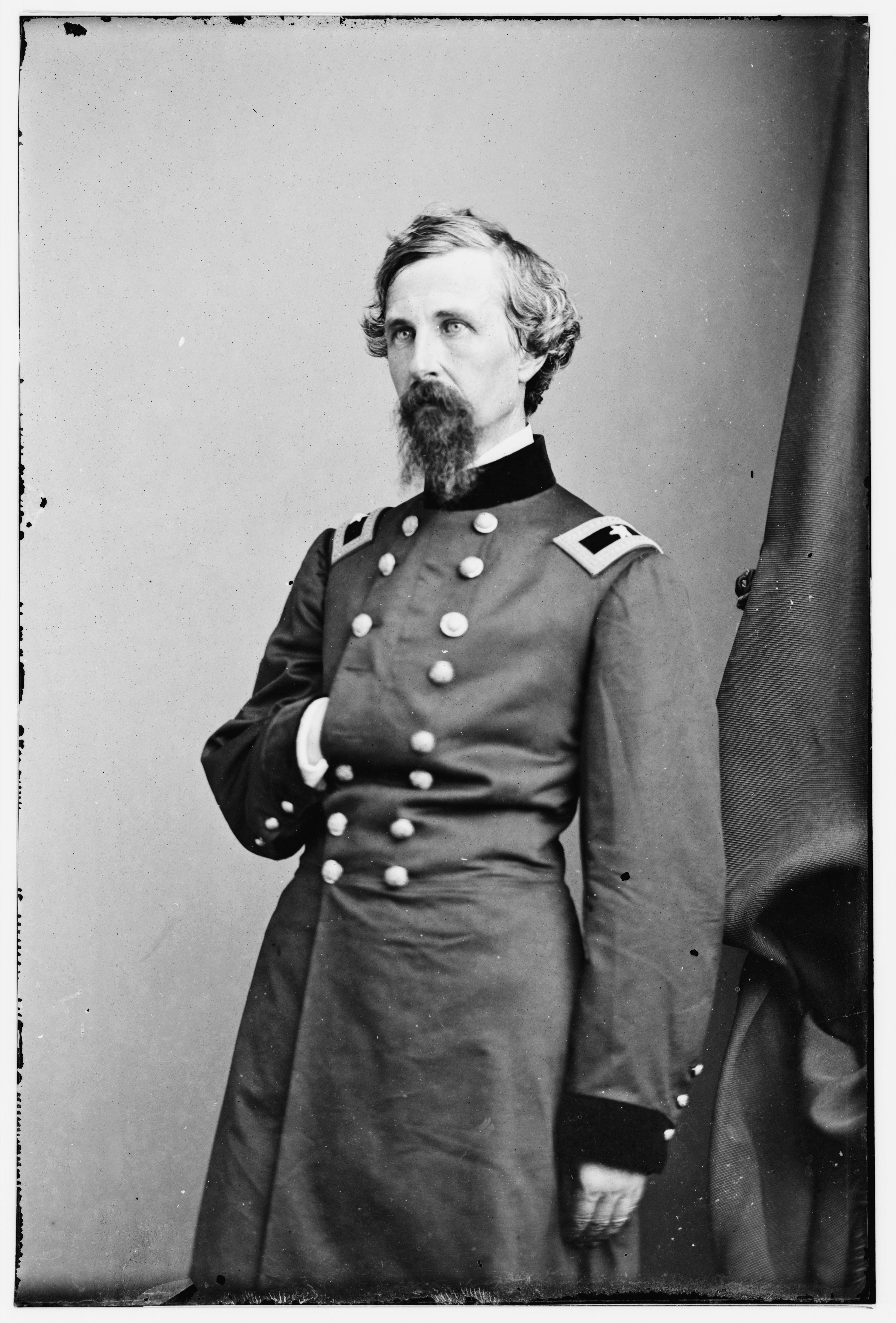 Title: Geo. F. Shepley, Col. 12th Maine Physical description: 1 negative